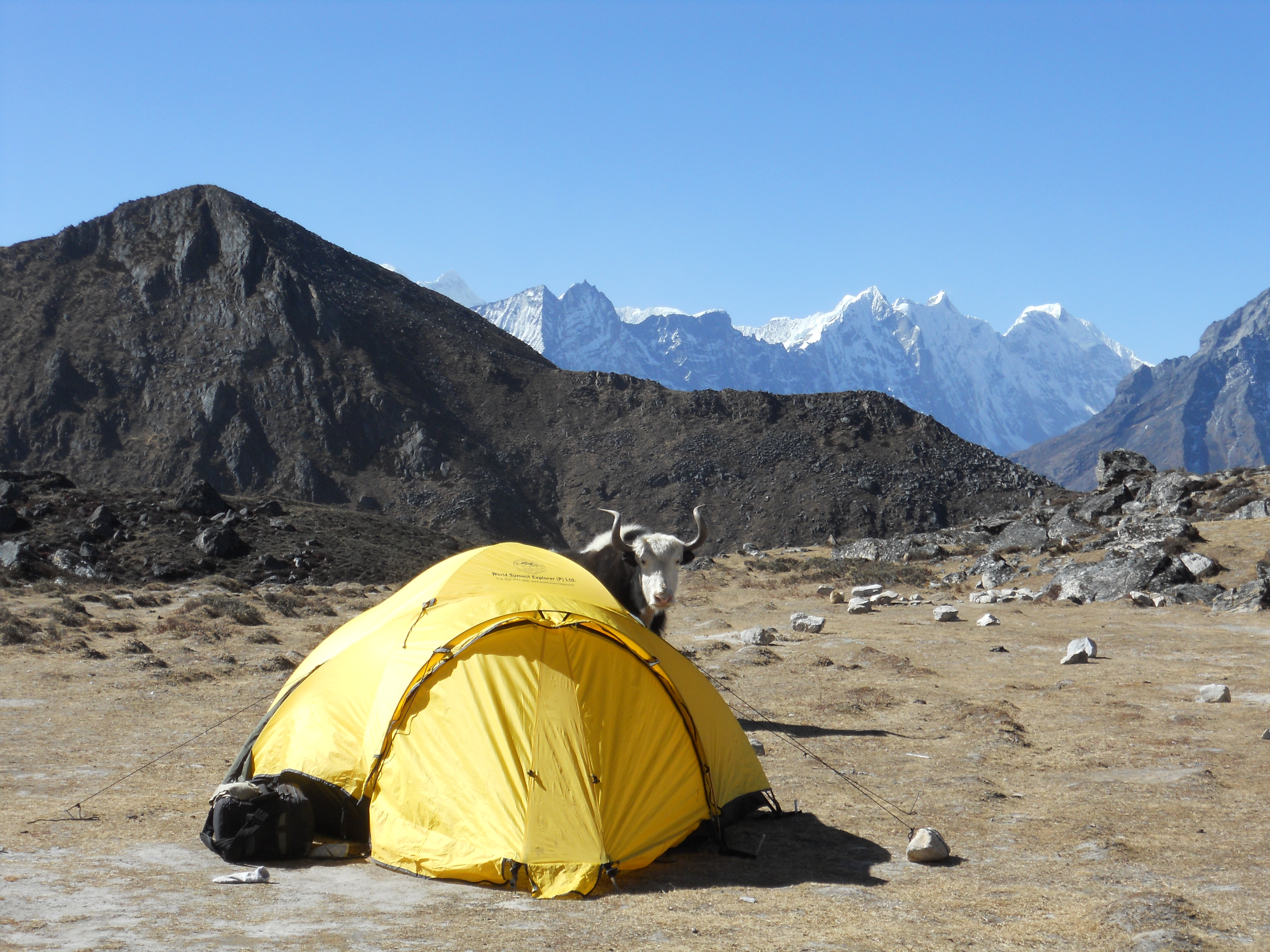 This picture is taken with help of Mr Shiva Shrestha